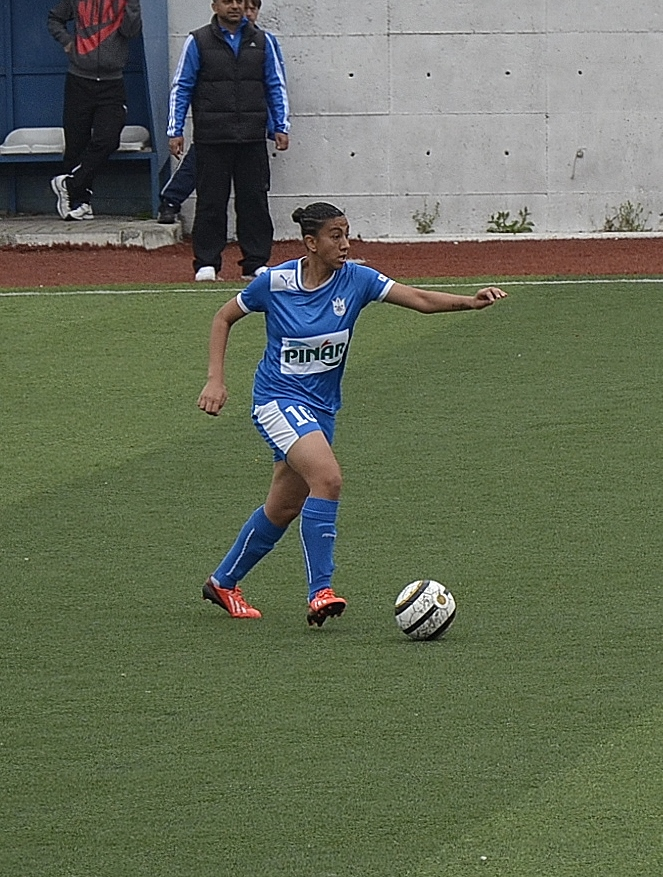 Yaşam Göksu for Konak Belediyespor in the 2013-14 season